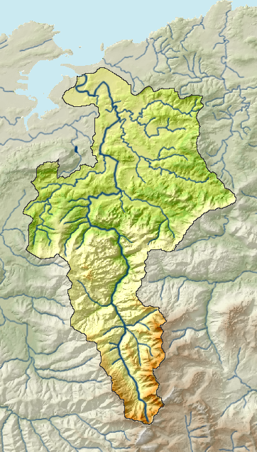 Basin hydrographic del river Miera.